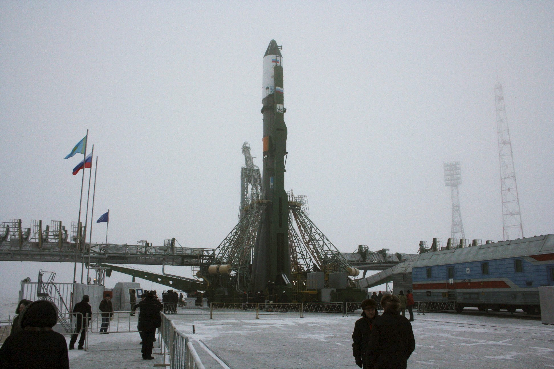 JSC2007-E-03082 (16 Jan. 2007) --- Roll-out of the Progress 24 vehicle occurred on schedule at 7:00 a.m., Jan. 16, 2007 at the Baikonur Cosmodrome, Kazakhstan. The vehicle was in the vertical and hard-down at the pad by 9:30 a.m. The gantry towers were placed around the vehicle shortly thereafter. Progress is targeted for launch on Jan. 18, 2007 for a two-day trip to the International Space Station carrying 2 1/2 tons of food, fuel and supplies for the Expedition 14 crew.